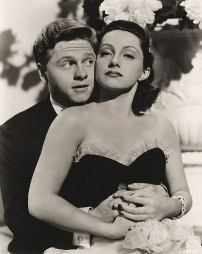 Mickey Rooney & Diana Lewis in the film Andy Hardy Meets Debutante (1940) - publicity still (cropped : see source)